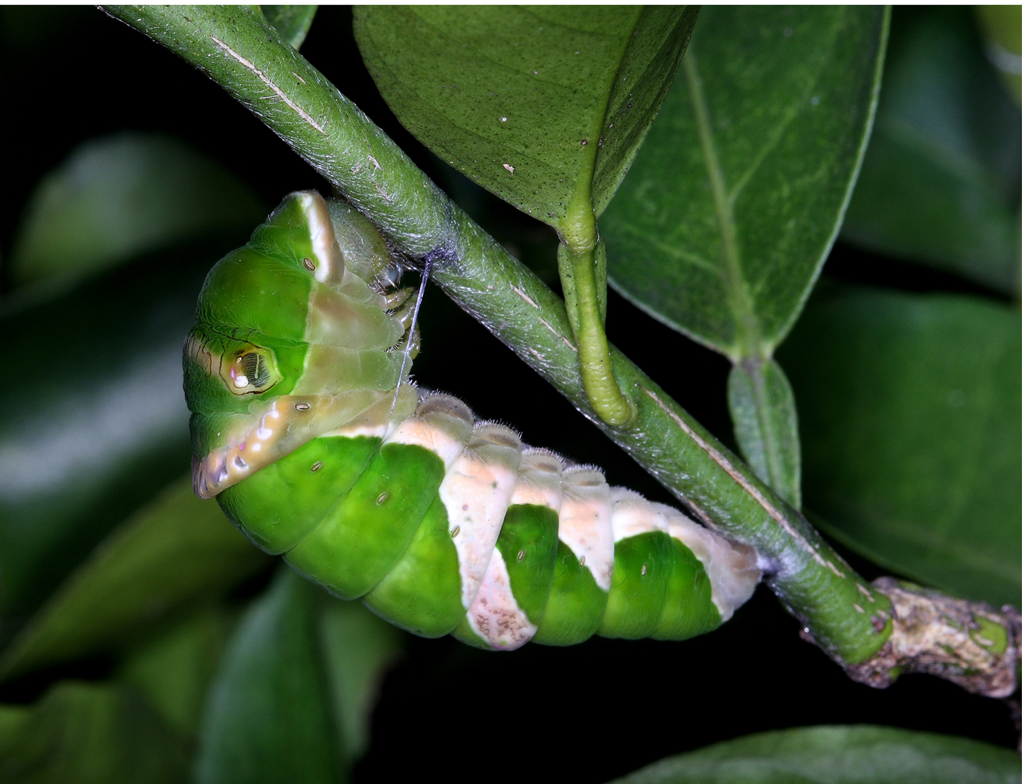 Papilio_memnon Of_before_becoming_the_chrysalis